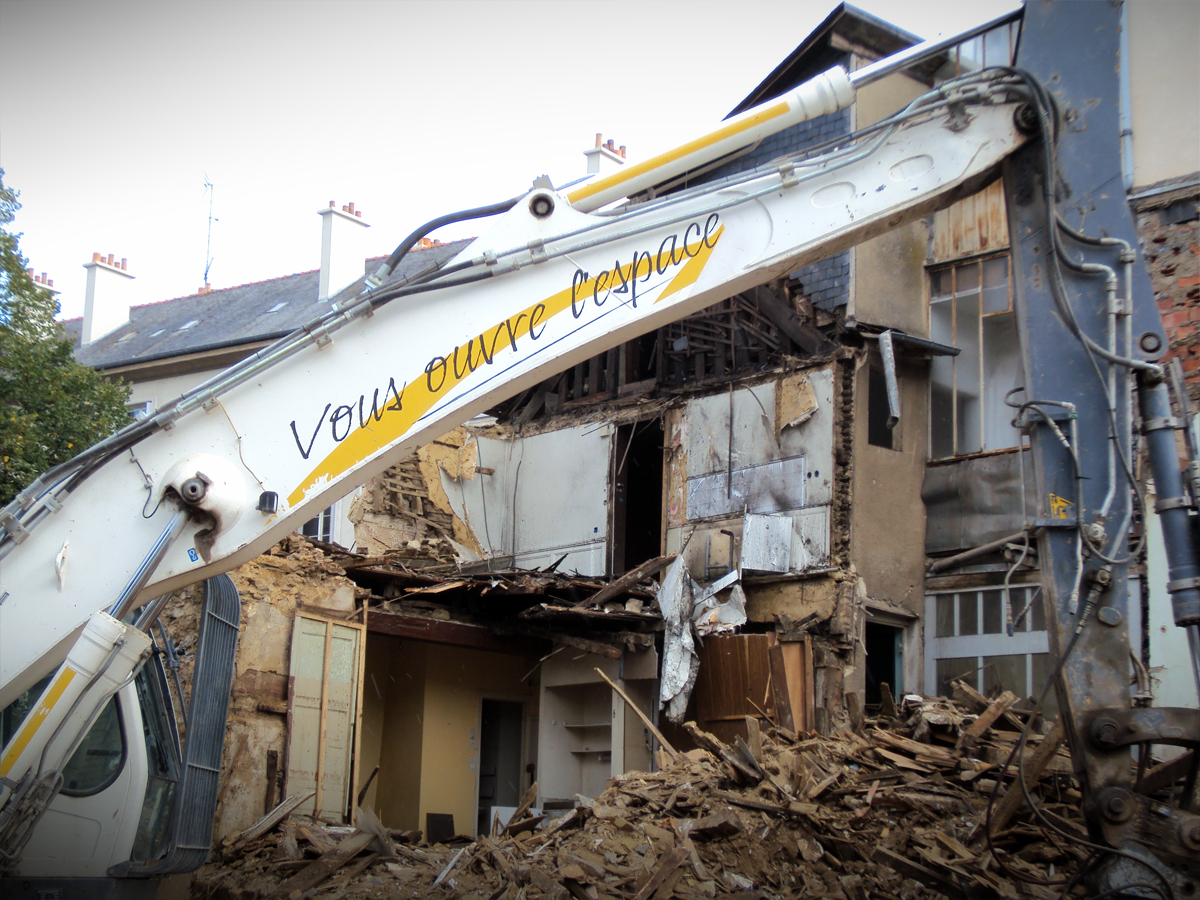 The destruction of the "Chat qui Pêche"' block in October 2013 in Rennes for the creation of the future metro line B